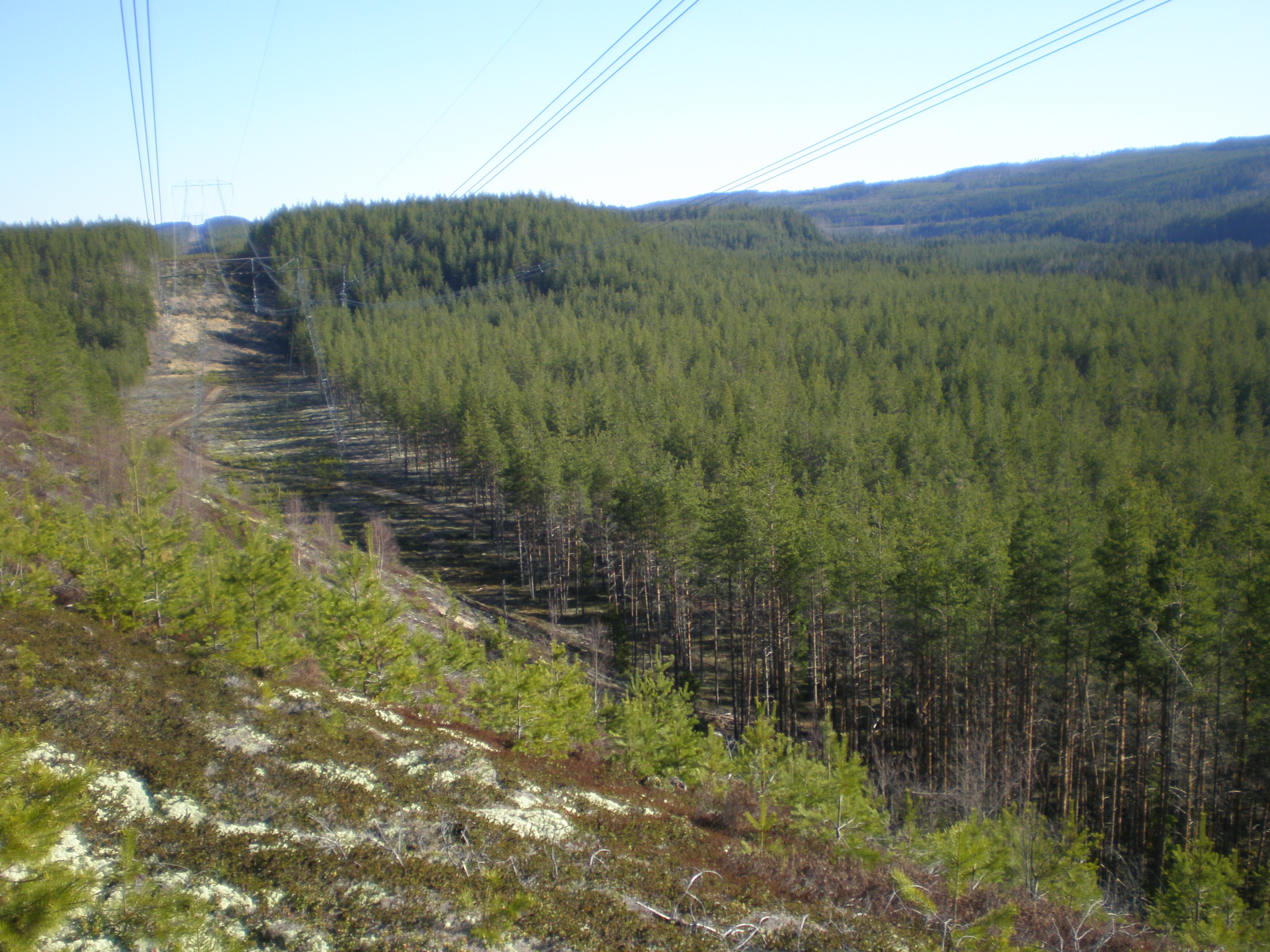 Steep sandy riverbank from glacial period in Gräsmark, Värmland, Sweden and the 400 kV high-tension transmission line between Midskog-Borgvik-Stenkullen